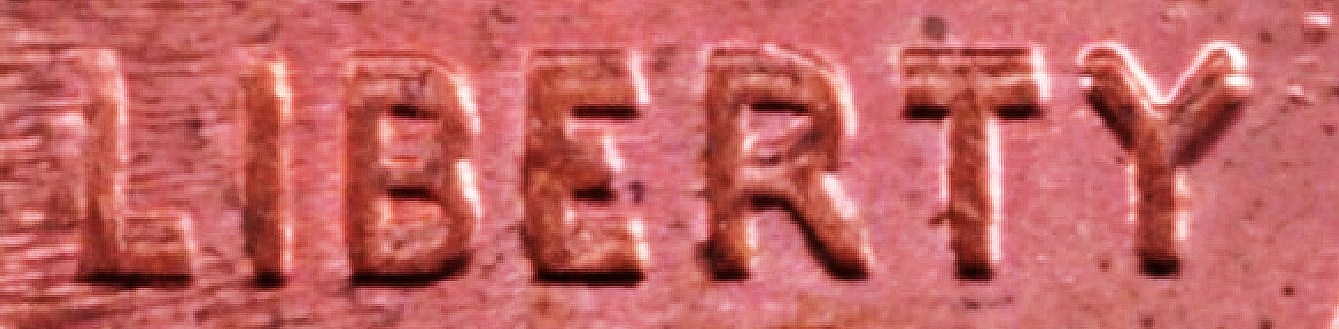 1995 Lincoln cent doubled die obverse